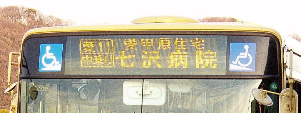 In the Kanagawa Chuo Kotsu Isehara branch, the getting on and off method display is described in parallel in the system number in the front display.